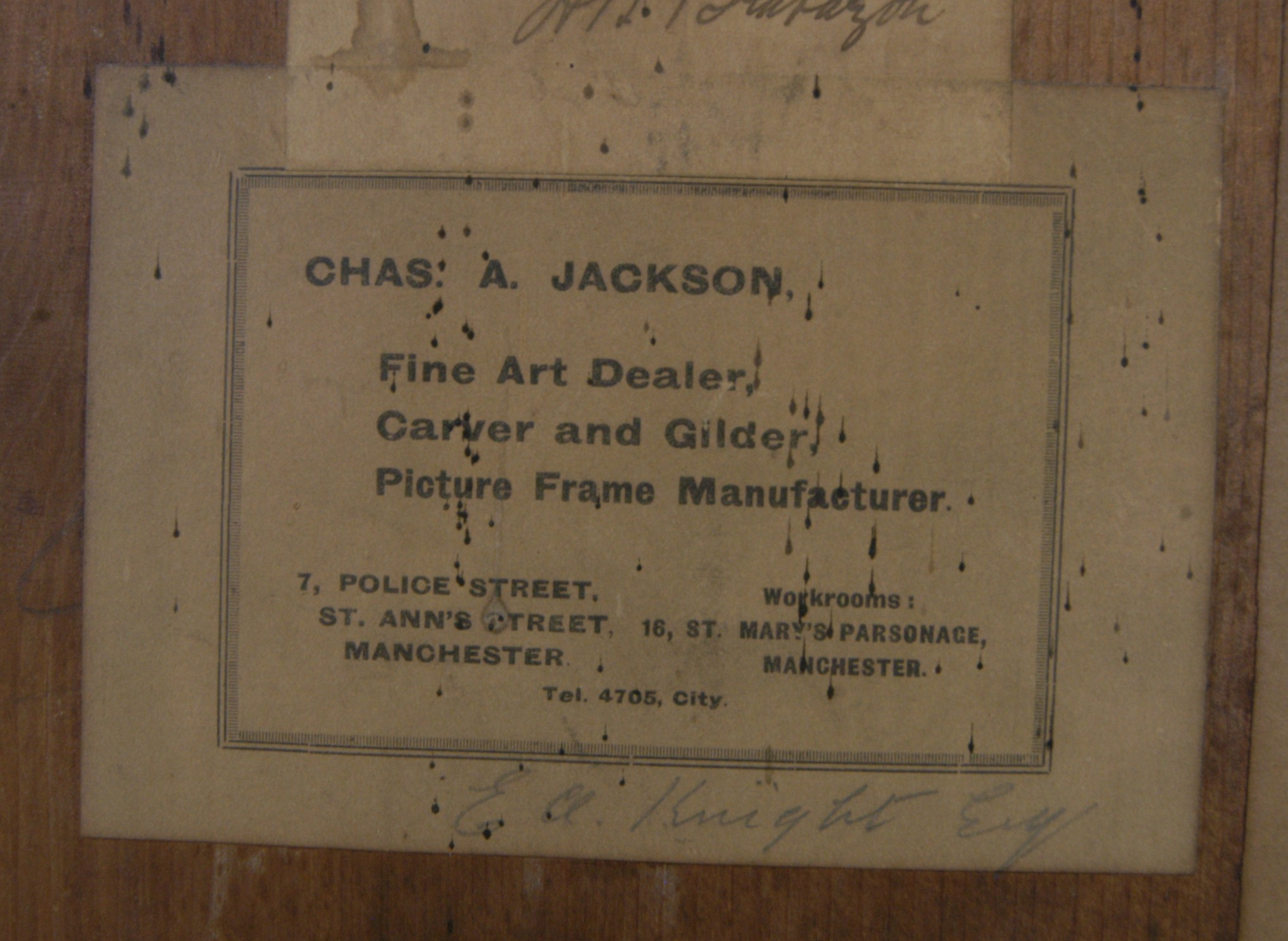 My photo (Rodolph (talk) 10:59, 9 August 2013 (UTC)) of a Chas A Jackson 1920s picture label on back of a Hercules Brabazon Brabazon pastel.